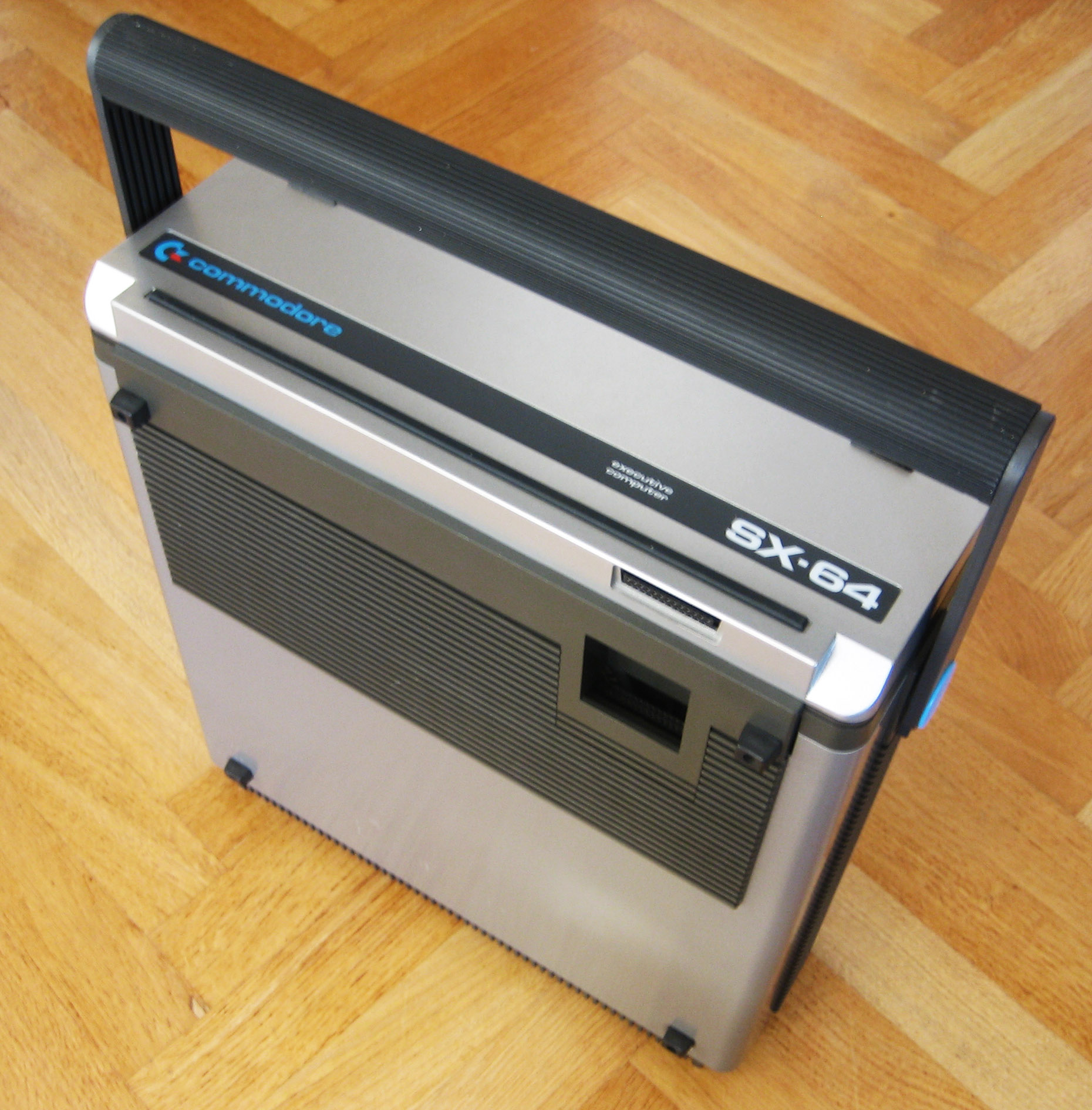 Commodore SX-64, standing. Feel free to modify the picture to add a white/transparent background, or otherwise enhance the picture.